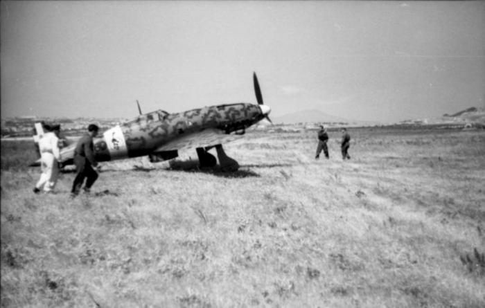 C.205 Veltro 51st Wing , Monserrato (Sardinia) 1943